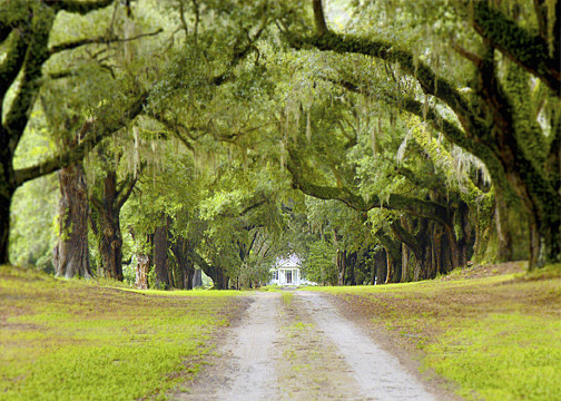 Mansfield Plantation Oak aleé and driveway — in Georgetown County, South Carolina. Credits Photograph by Thomas Namey, Namey Design Studios.